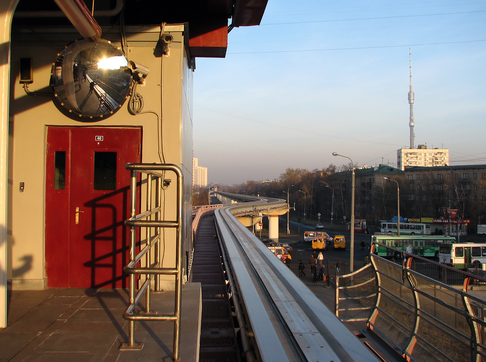 Station Timiryazevskaya of Moscow monorail transit system. Track to the next station.